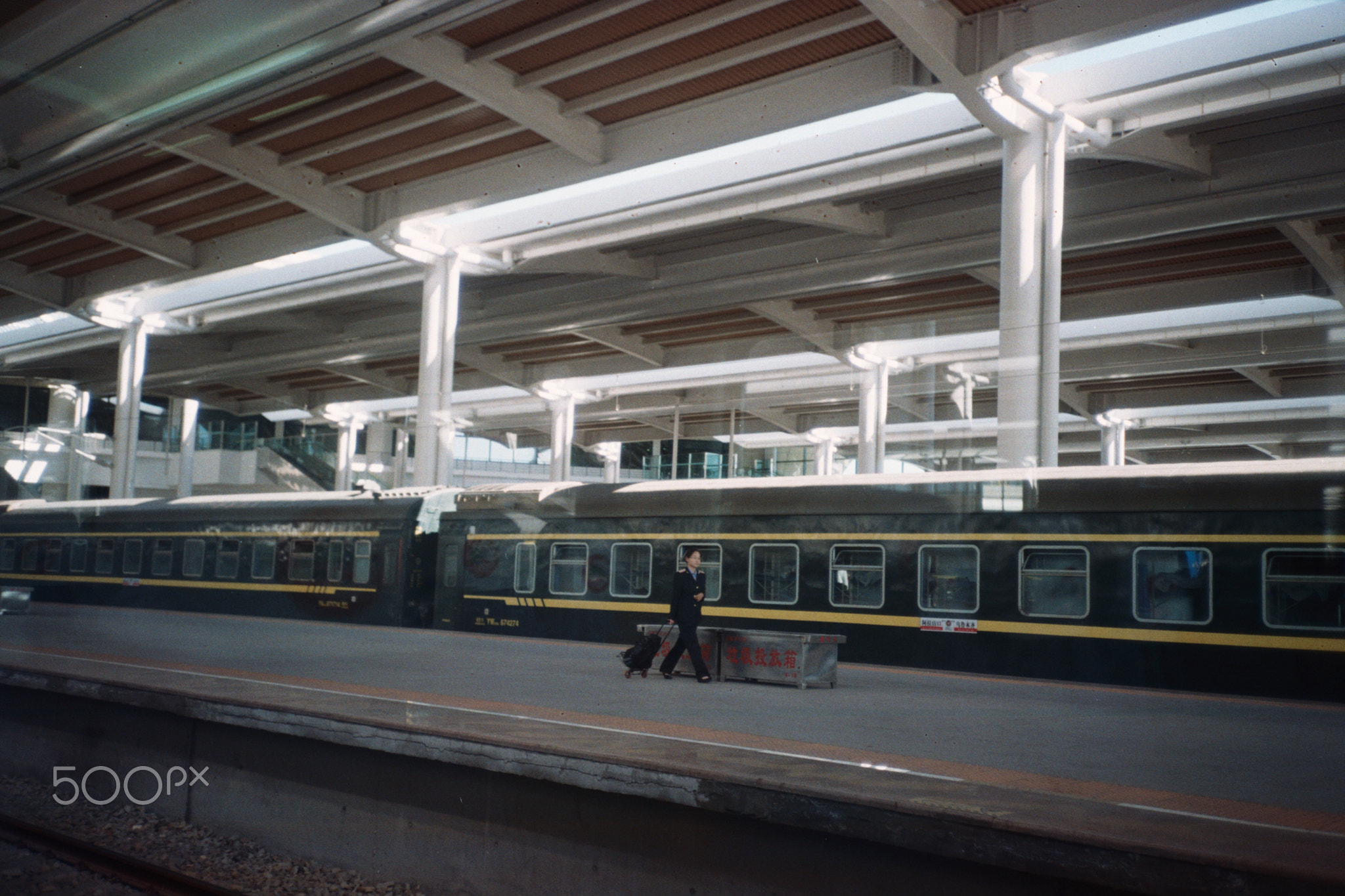 Ürümqi station, opening 2014: LGV Lanzhou - Ürümqi / Lan-Xin railway line. New Silk Road